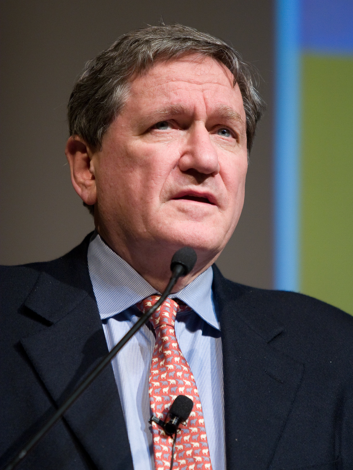 Richard Holbrooke, US diplomat, speaks at Brown University, Providence, RI. Feb 21, 2008.